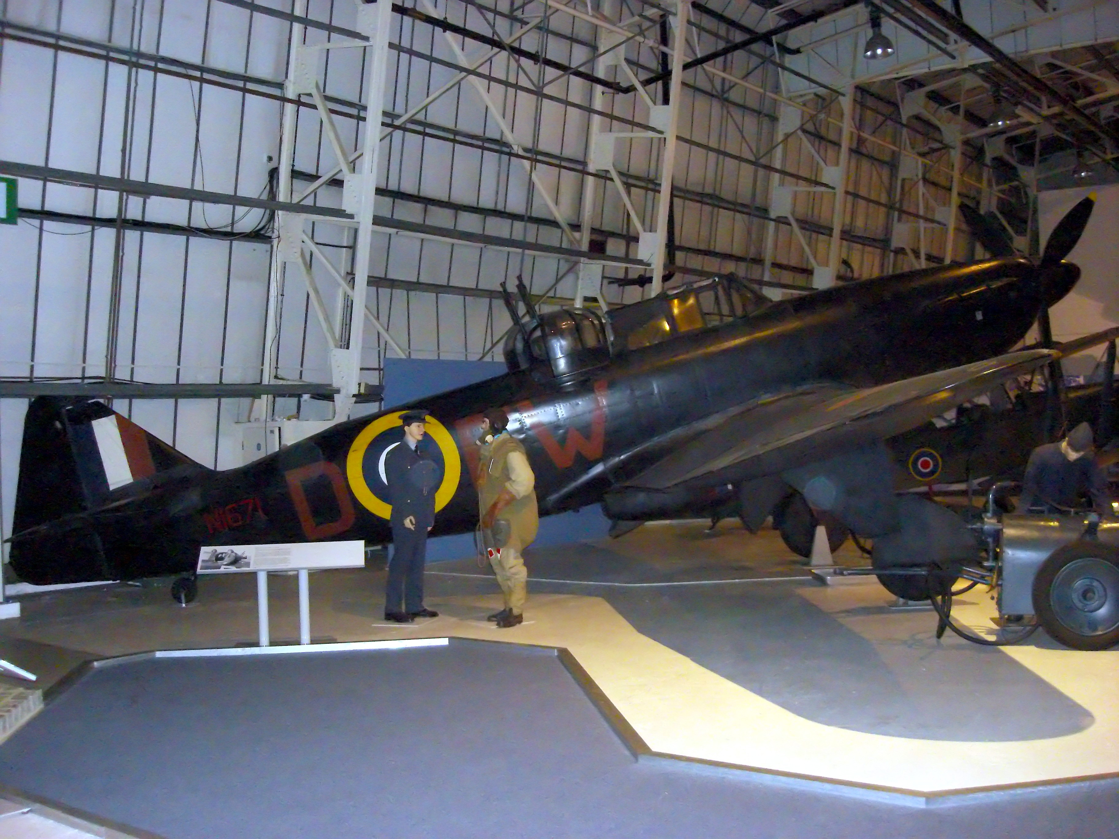 Boulton Paul Defiant at the RAF Museum in London.